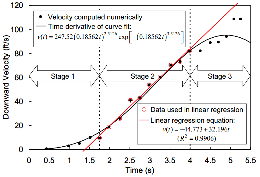 Downward velocity time graph of north face roofline as World Trade Center 7 began to collapse on September 11, 2001. NIST NCSTAR 1-9, Figure 12-77, Page 603.